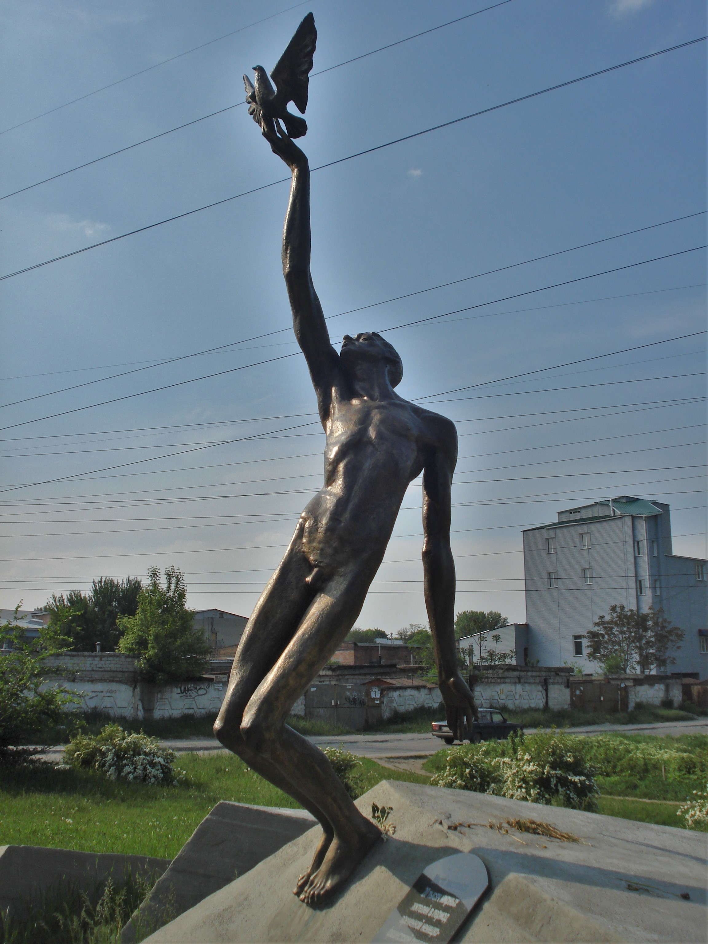 Monument of 20000 Jews shot by Germans in 1943 in Dnipropetrovsk [Energetichna street], Ukraine